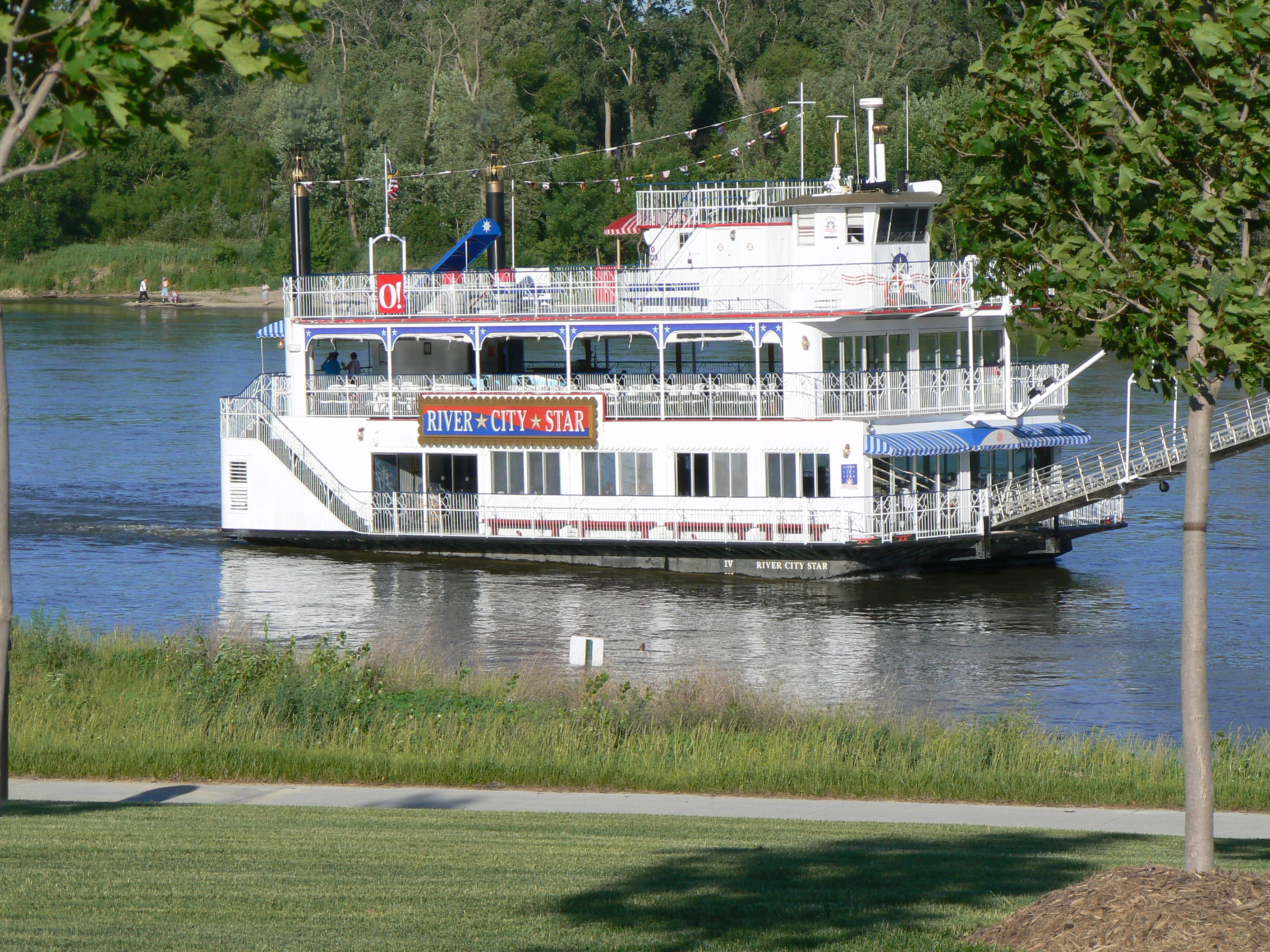 Diesel powered replica of a Paddlewheel steamboat formerly known as the River City Star in Omaha, Nebraska. This boat has since been retired and there is a newer River City Star that sails the Missouri River now.